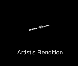 This picture of the European Space Agency's Mars Express spacecraft by the Mars Orbiter Camera on NASA's Mars Global Surveyor is from the first successful imaging of any spacecraft orbiting Mars taken by another spacecraft orbiting Mars. The picture is a composite of two views of Mars Express that Mars Orbiter Camera acquired on April 20, 2005, from distances of about 250 and 370 kilometers (155 and 229 miles). Owing to the large distance between Mars Global Surveyor and Mars Express when the two views could be acquired and to a substantial cross-track component of apparent motion for which no correction could be made, Mars Express appears in the image as a narrow blur rather than as a well-defined spacecraft. It appears in the image to be about 1.5 meters in the small dimension and 15 meters in the long dimension, which is consistent with the viewing distance, pixel scale, and encounter geometry. The components of Mars Express when viewed from the same angle as this image can be seen in an artist's rendition and an annotated rendition, of the spacecraft. Mars Express was launched on June 3, 2003, and reached Mars on Dec. 25, 2003. Mars Global Surveyor left Earth on Nov. 7, 1996, and arrived in Mars orbit on Sept. 12, 1997. JPL, a division of the California Institute of Technology, Pasadena, manages Mars Global Surveyor for NASA's Science Mission Directorate, Washington, D.C.